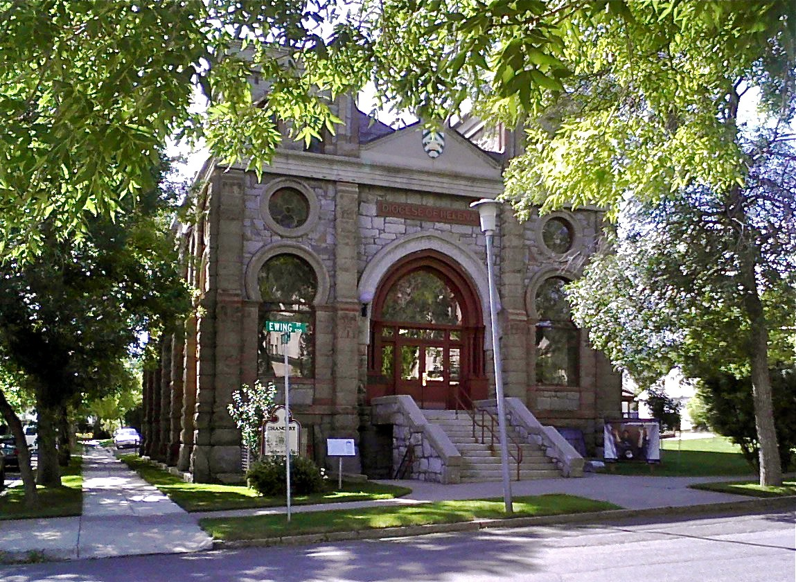 Temple Emanu-El, Building on National Register of Historic Places, Helena, Montana. Now, ironically, houses the administrative offices of the Helena Diocese of the Roman Catholic Church